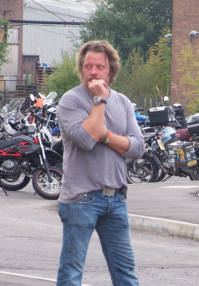 English adventurer Charley Boorman in Wales